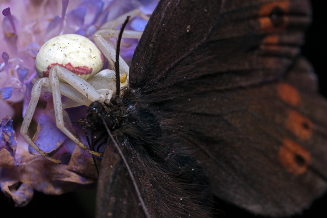 This is NOT an arranged shot. I don't like to arrange my nature shots and I try at any length to wait for nature to take its course and to be there when something special happens. I will admit that at times I do intervene just a little bit by, like in this case, lightly touching on the spider (after it had gotten a tight grip on its prey) to make it move to the top of the flower instead of as it was when I found it, under the flower and hidden. I still needed to move around it since it kept moving around slightly with its prey. The Crab spider can hunt quite large insects, for ex. butterflies, as can be seen on this photo. I was lucky to see this at all as all I thought I saw was a butterfly standing on this Devils-bit Scabious flower. It moved a bit like any butterfly would and I got interested and wasn't that interested in taking a photo of this butterfly at first but decided to give it a try. Not until I looked at the shot through my macro did I realized that it had just been caught by a spider barely visible under the flower. These Crab spiders can grow up to 10mm body length (female), males can grow at most to 5mm long. It's the female that's always seen in flowers hunting. These females change color according to the flower they hunt from but a change in color takes several days. The color change is induced by visual feedback. They do not hunt using a web but instead stand and wait, often right under the flower, and attack as soon as an insect comes in range while feeding on nectar.